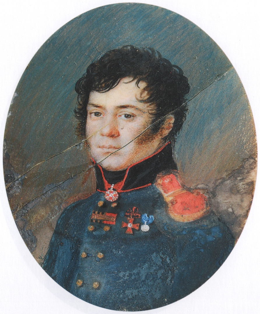 Gruzinov Nikolay Osipovich